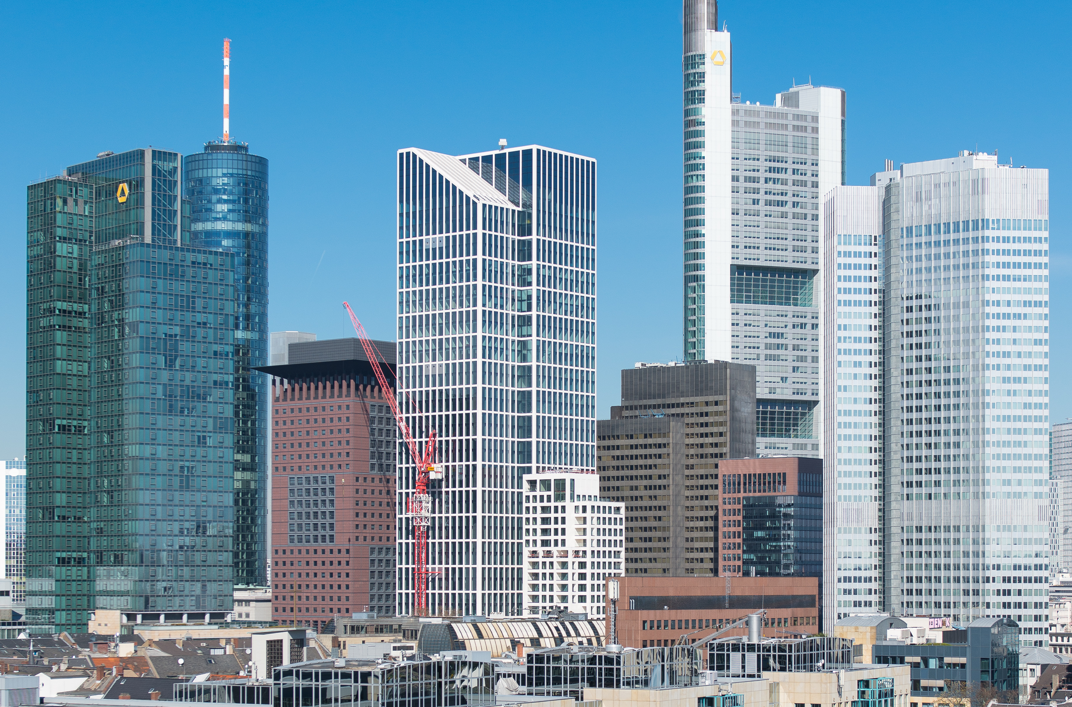 Frankfurt am Main, Taunusturm towers with their close neighbours in the central bank district.